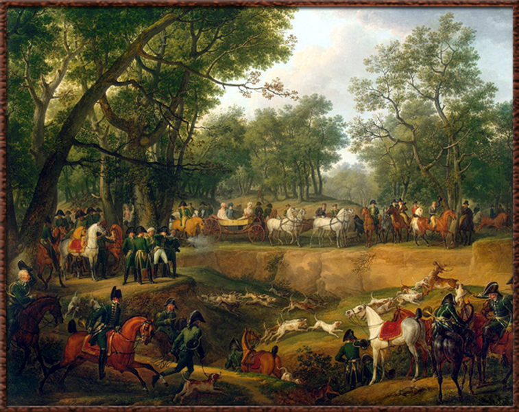 Napoléon on a hunt in the forest of Compiègne (oil, 1811, by Carle Vernet).